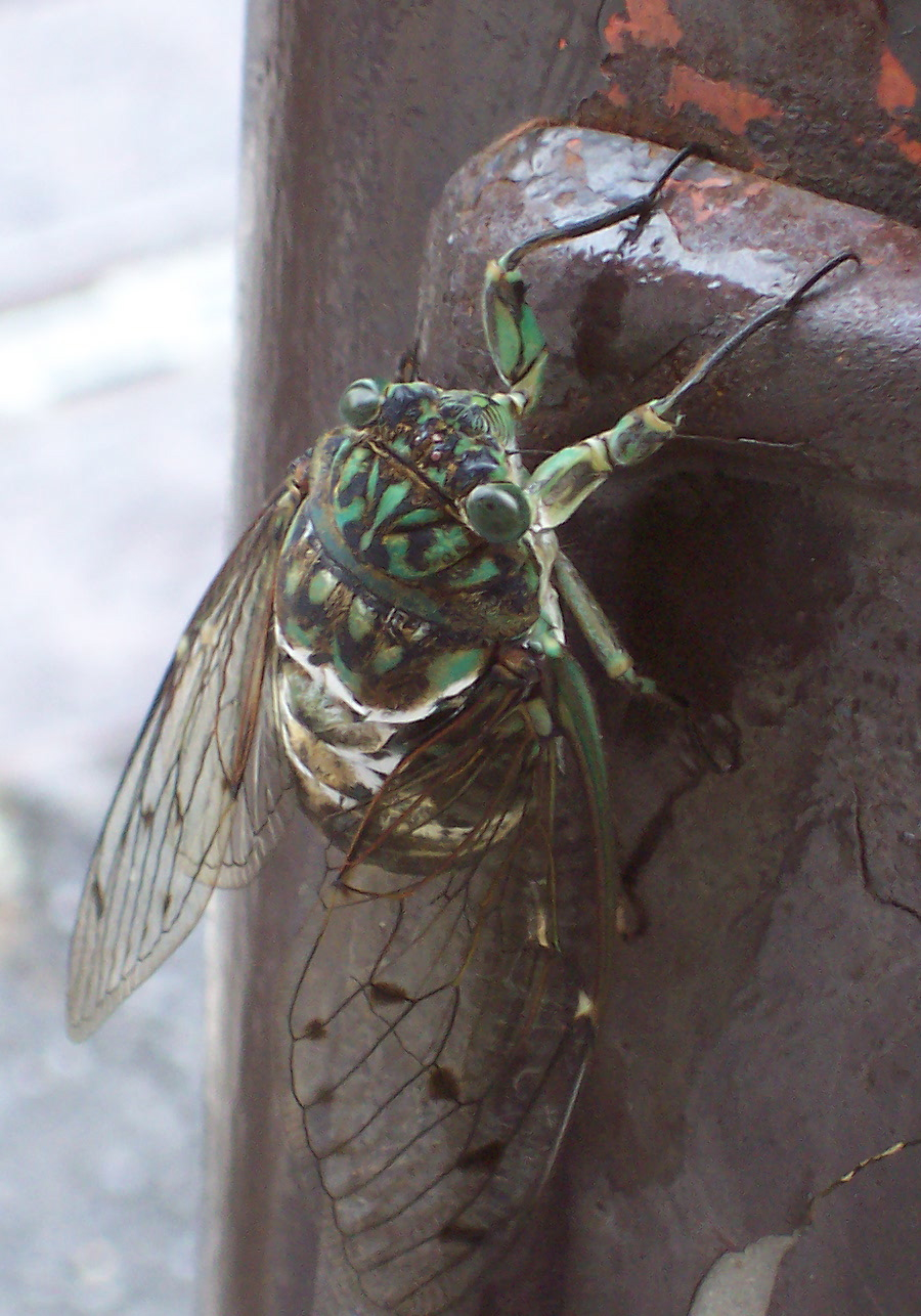 A newly-moulted G.Nigrofuscata clinging to a lamppost. Note the specimen's overall green colour. This will change to various shades of brown as the cicada matures.